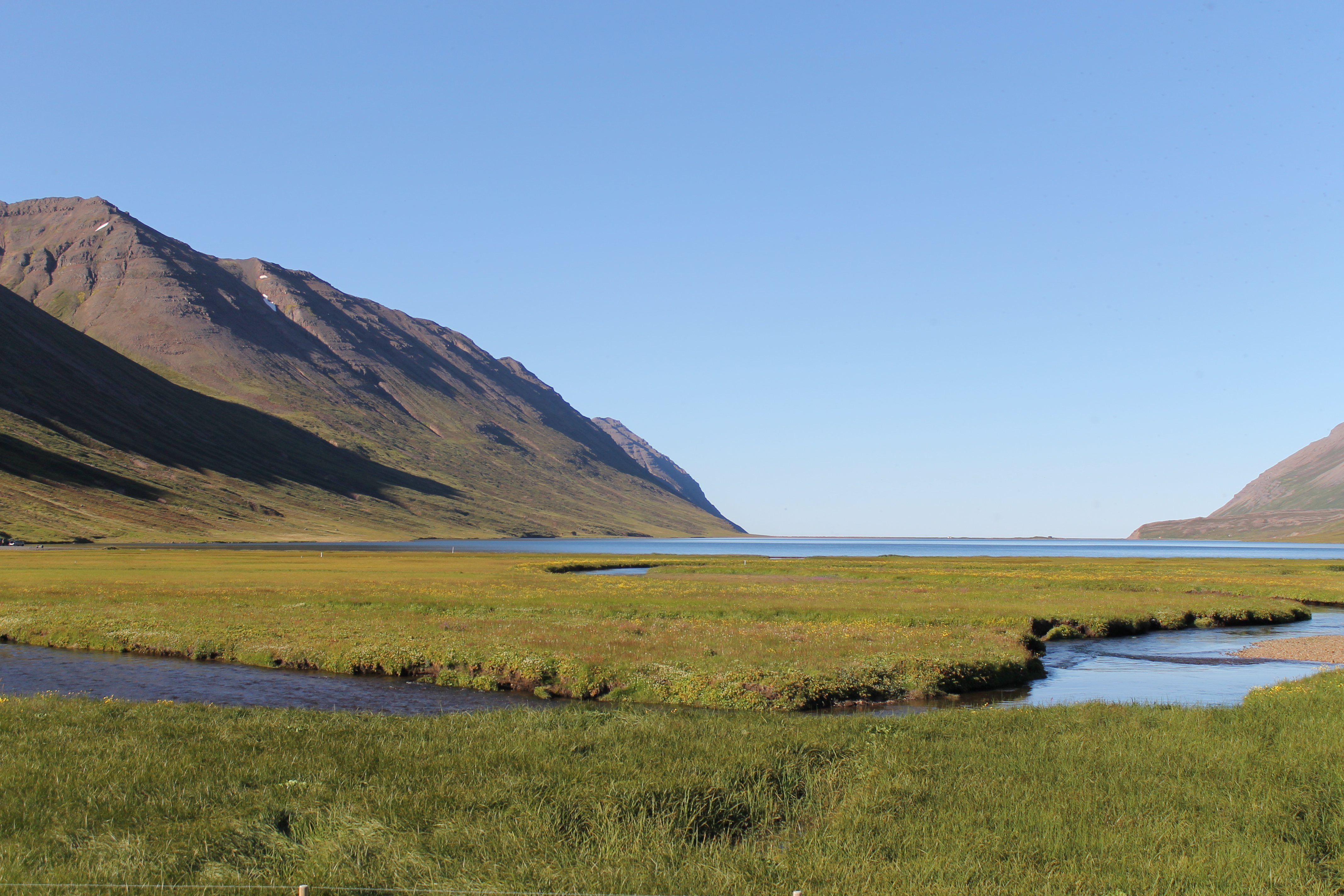 Hestfjall in Héðinsfjörður, Northern Iceland, the scene of the worst air disaster in the history of Iceland, 1947.